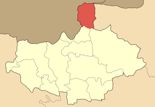 Locator map of Mourion municipality (Δήμος Μουριών) at Kilkis perfecture, Greece.